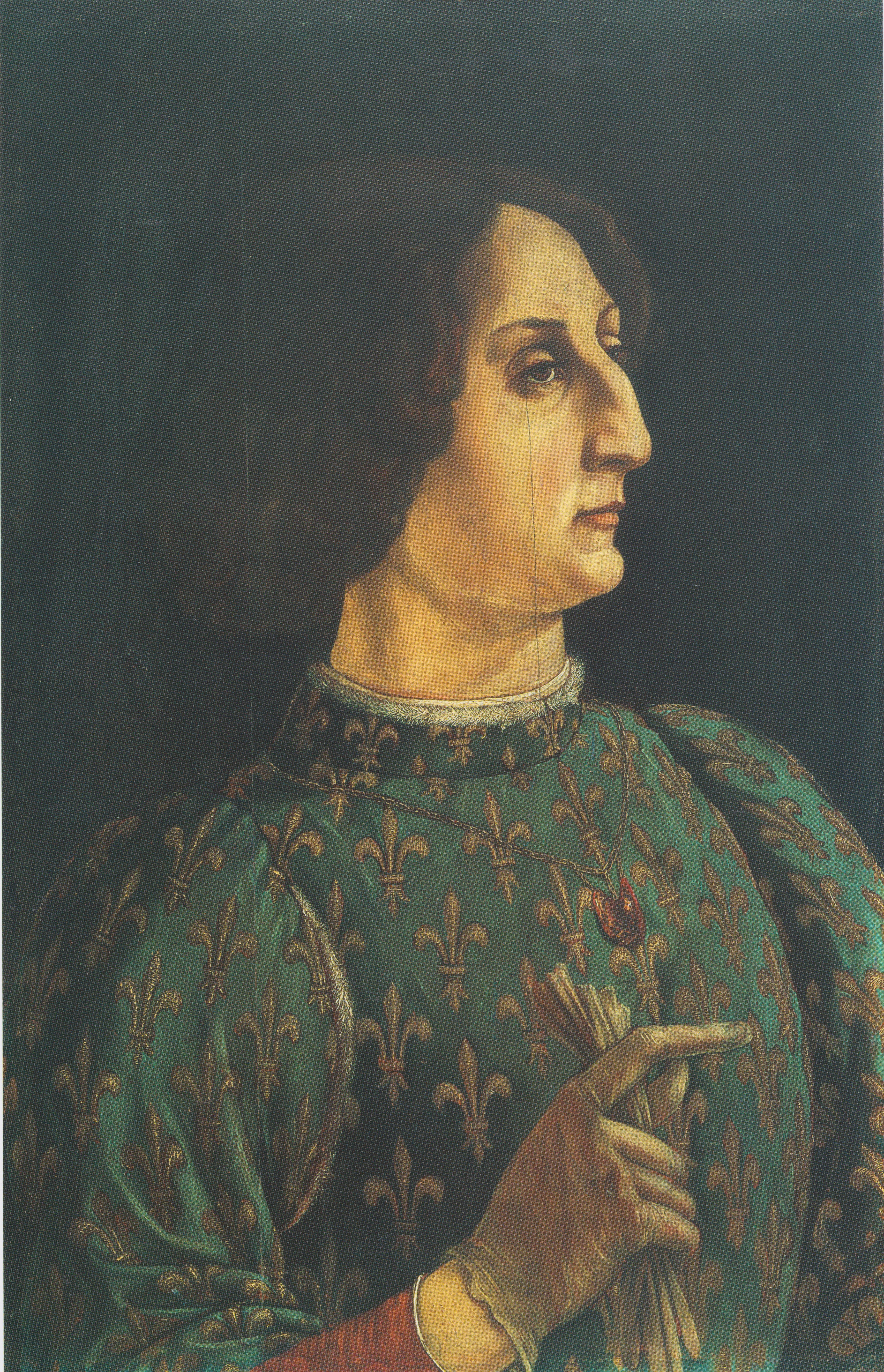 Piero Pollaiuolo painted this portrait during one of Galeazzo Maria Sforza's visits to Florence. The work is based on a similar portrait by his brother, Antonio. That the portrait is of Sforza is beyond doubt, as copies exist bearing Sforza's name. Restored in 1994.